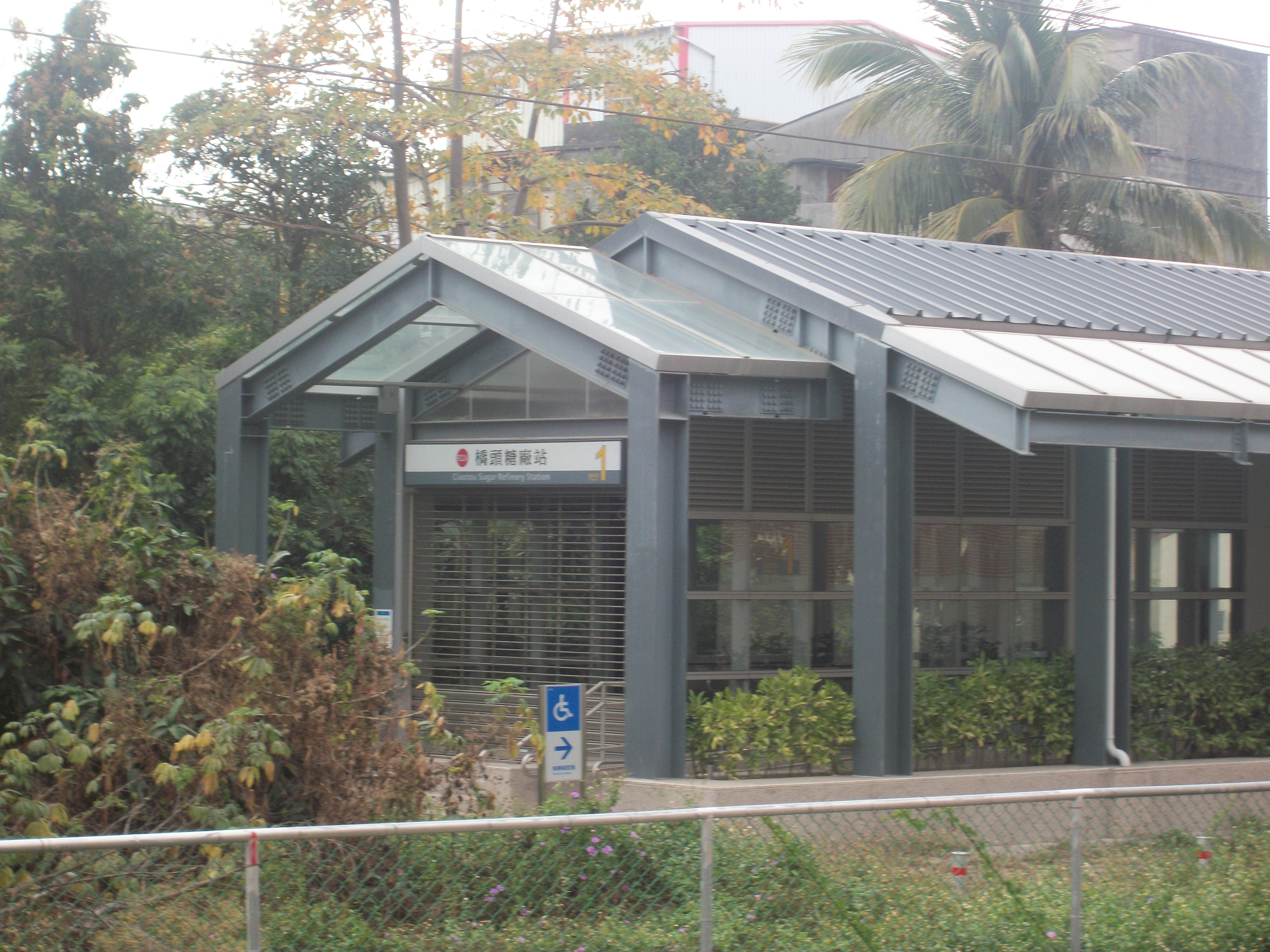 Exit No.1 of Ciaotou Sugar Refinery Station on the MTR's Red Line.中文（台灣）: 高雄捷運紅線橋頭糖廠車站一號出口。